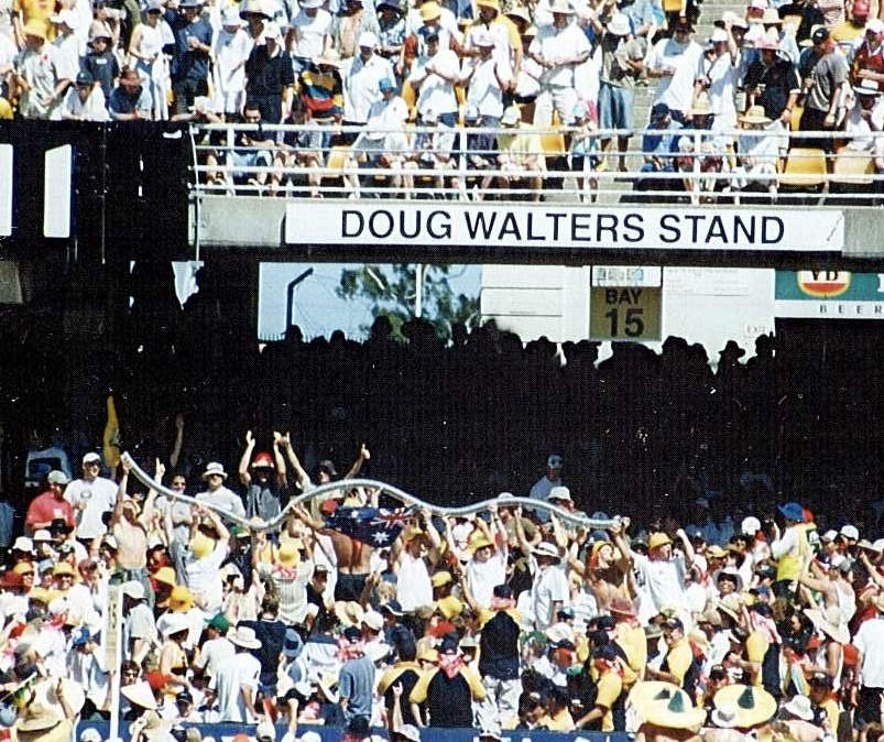 Beer Snake formed by attendees of Mark Howell's Bucks Day at The Sydney Cricket Ground (SCG) 04 Janurary 2004. Seats were on "The Hill" in Bay 15 under the Doug Walter's Stand.